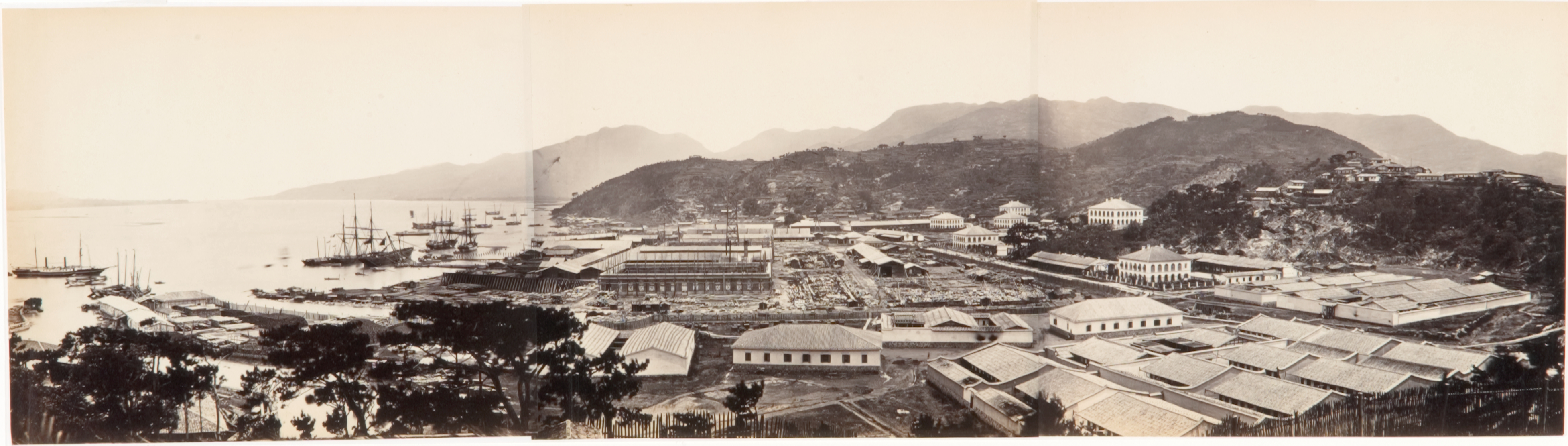 Panorama of the Foochow Arsenal showing the shipyard, harbour, buildings and a building site, Mamoi (now Mawei), near Foochow (now Fuzhou), China [three albumen silver prints joined to form a panorama]